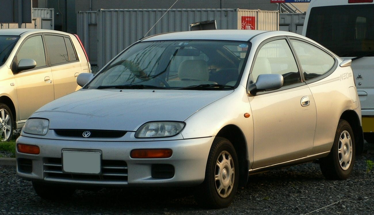 8th generation Mazda_Familia-Neo (1994 - 1996)